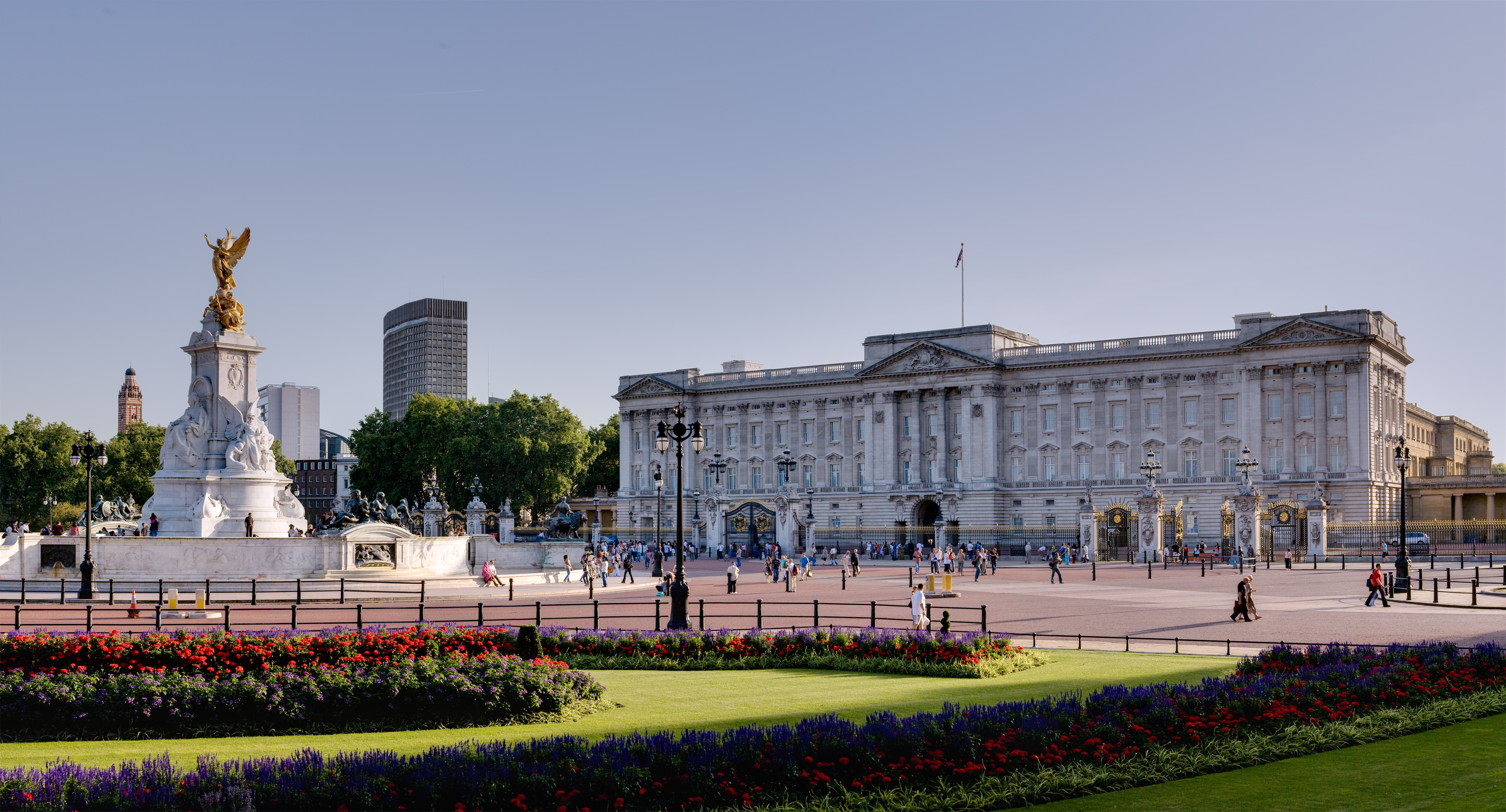 Buckingham Palace and the Victoria Monument in the afternoon sun. This is a panorama of five segments and taken by myself with a Canon 5D and 24-105mm f/4L IS lens.